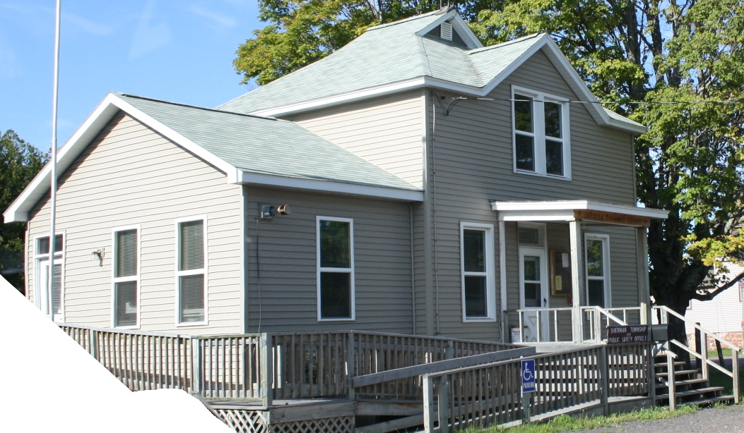 Looking at the town hall for Sherman Township, Keweenaw County, Michigan.